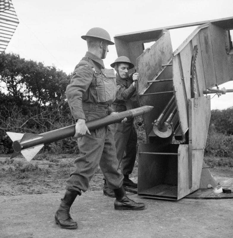 IWM caption : Home Guard soldiers load an anti-aircraft rocket at a 'Z' Battery on Merseyside.